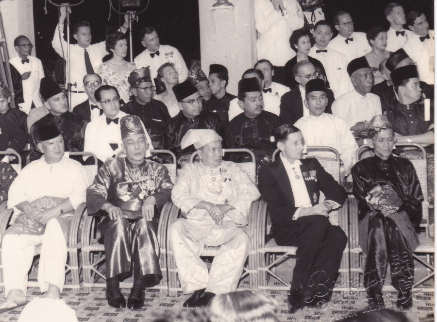 Dignitaties that attended the royal wedding ceremony of Raja Muda of Kedah Tunku Abdul Halim and Tunku Bahiyah in 1956.